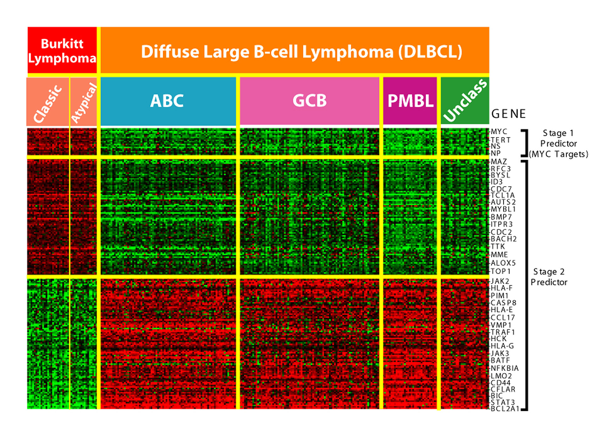 Title DNA-Microarray Analysis Description A DNA-microarray analysis of Burkitt's lymphoma and Diffuse Large B-cell Lymphoma (DLBCL) is shown and identifies differences in gene expression patterns. Topics/Categories Cells or Tissue -- Normal Cells or Tissue Science and Technology -- Laboratory Techniques/Equipment Type Color, Photo Source Molecular Diagnosis of Burkitt's Lymphoma, New England Journal of Medicine, June 8, 2006, Vol. 354 (23), 2431-2442